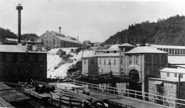 Photograph, Chicoutimi Pulp Mills, QC, copied 1901-11, Anonymous, 1900-1912, Silver salts on glass - Gelatin dry plate process - 20 x 25 cm